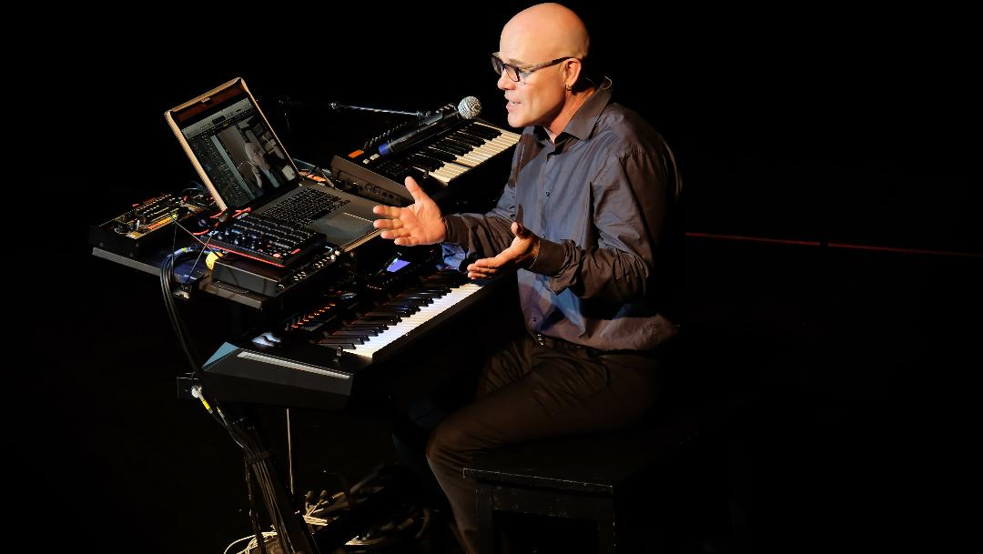 Thomas Dolby performing in Atlantic City NJ USA 2018